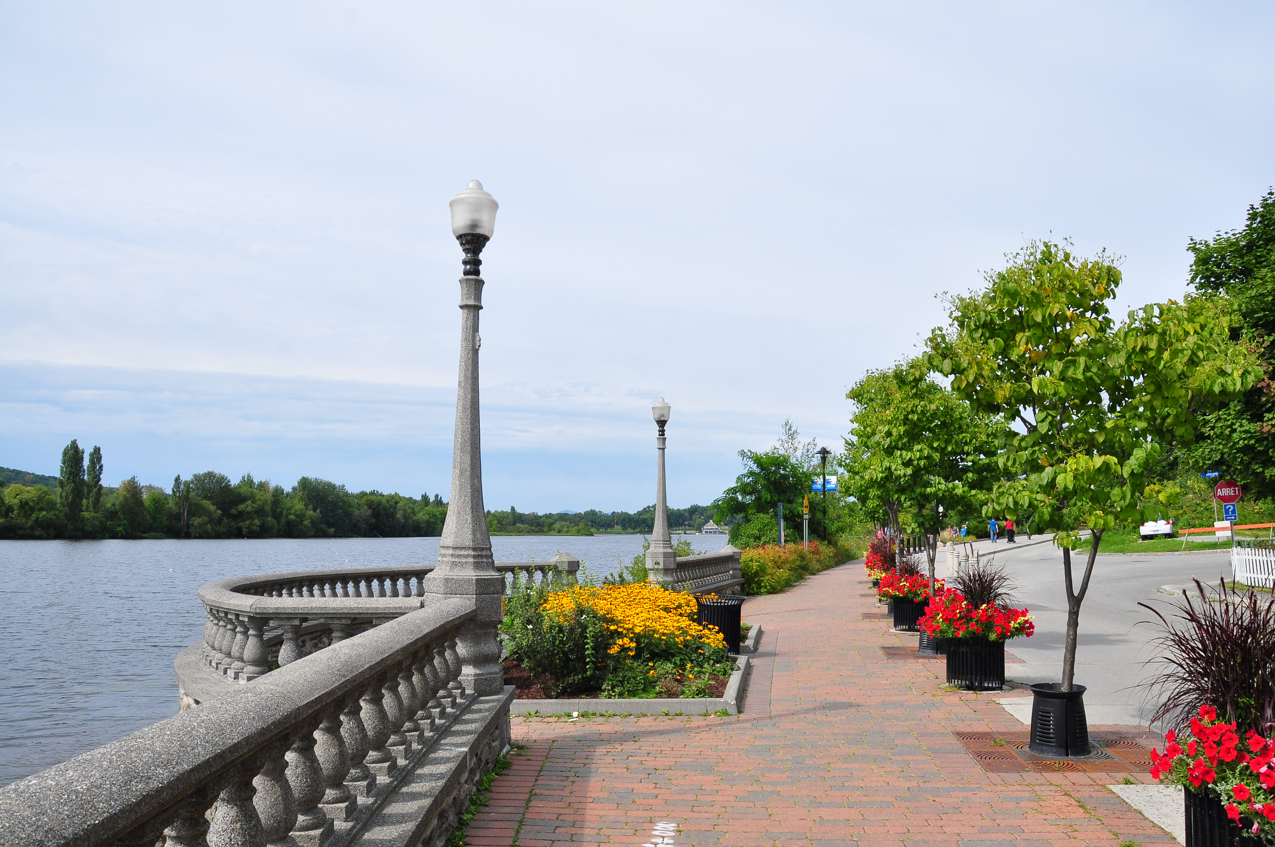 Sherbrooke, Quebec, Canada, overlooking Lac des Nations.